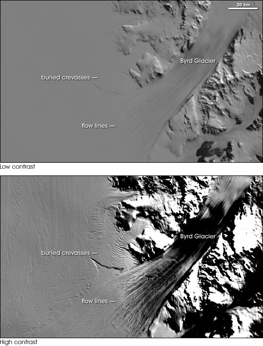 Low and high contrast images of the Byrd Glacier in Antarctica. The low-contrast version is similar to the level of detail the naked eye would see in an airplane flight over the area. In this scene, the ice sheet seems smooth and almost featureless. The bottom image uses enhanced contrast to highlight flow lines on the ice sheet and bottom crevasses.